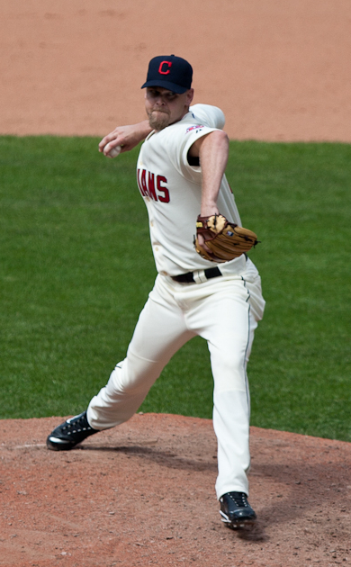 Kerry Wood